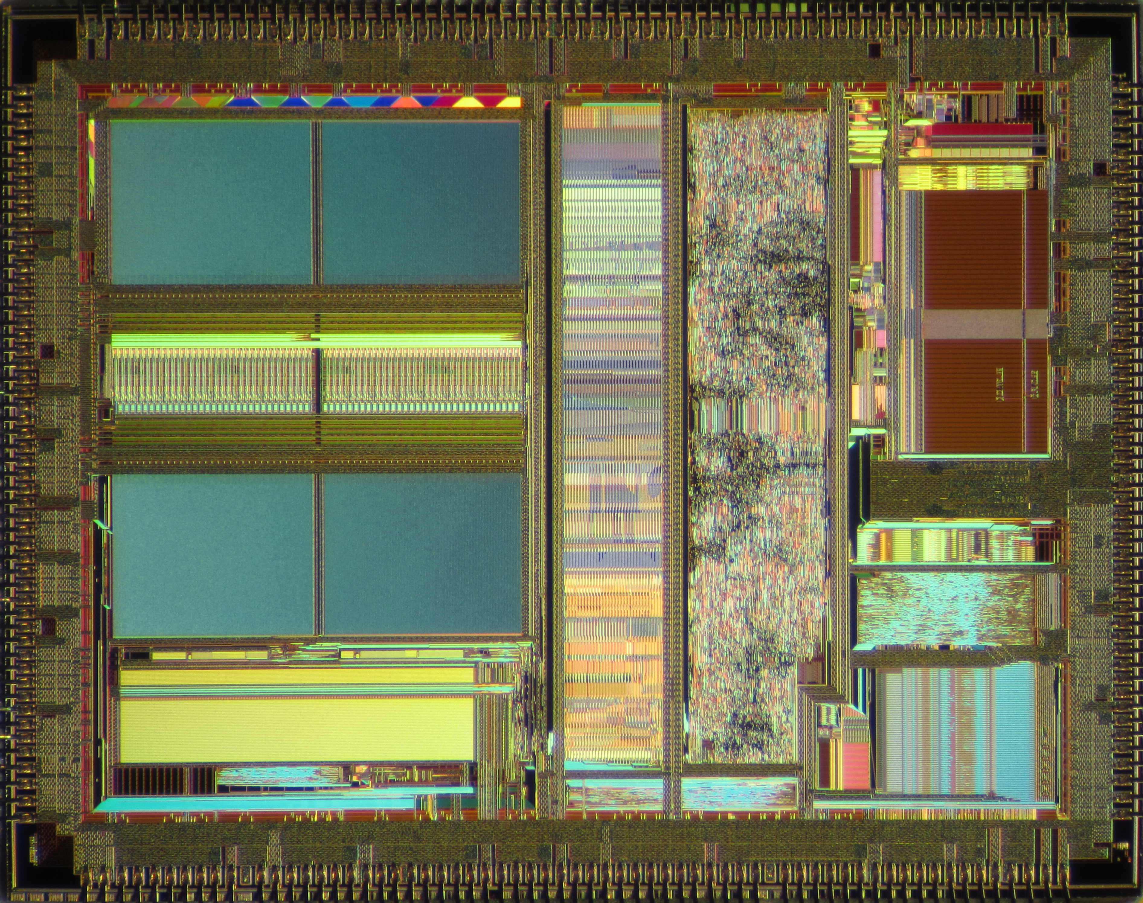 Die shot of AMD Am5x86-P75 microprocessor.